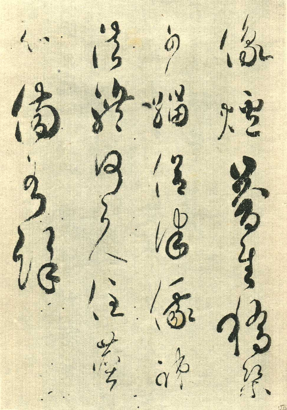 Koku Saityou shounin, written by Emperor Saga. owned by Prince Konoe family Transcription (Japanese characters here are read top to bottom, right to left): 像爐蒼生橋梁 / 少緇侶律儀疎 / 法軆何久住塵 / 心傷有餘